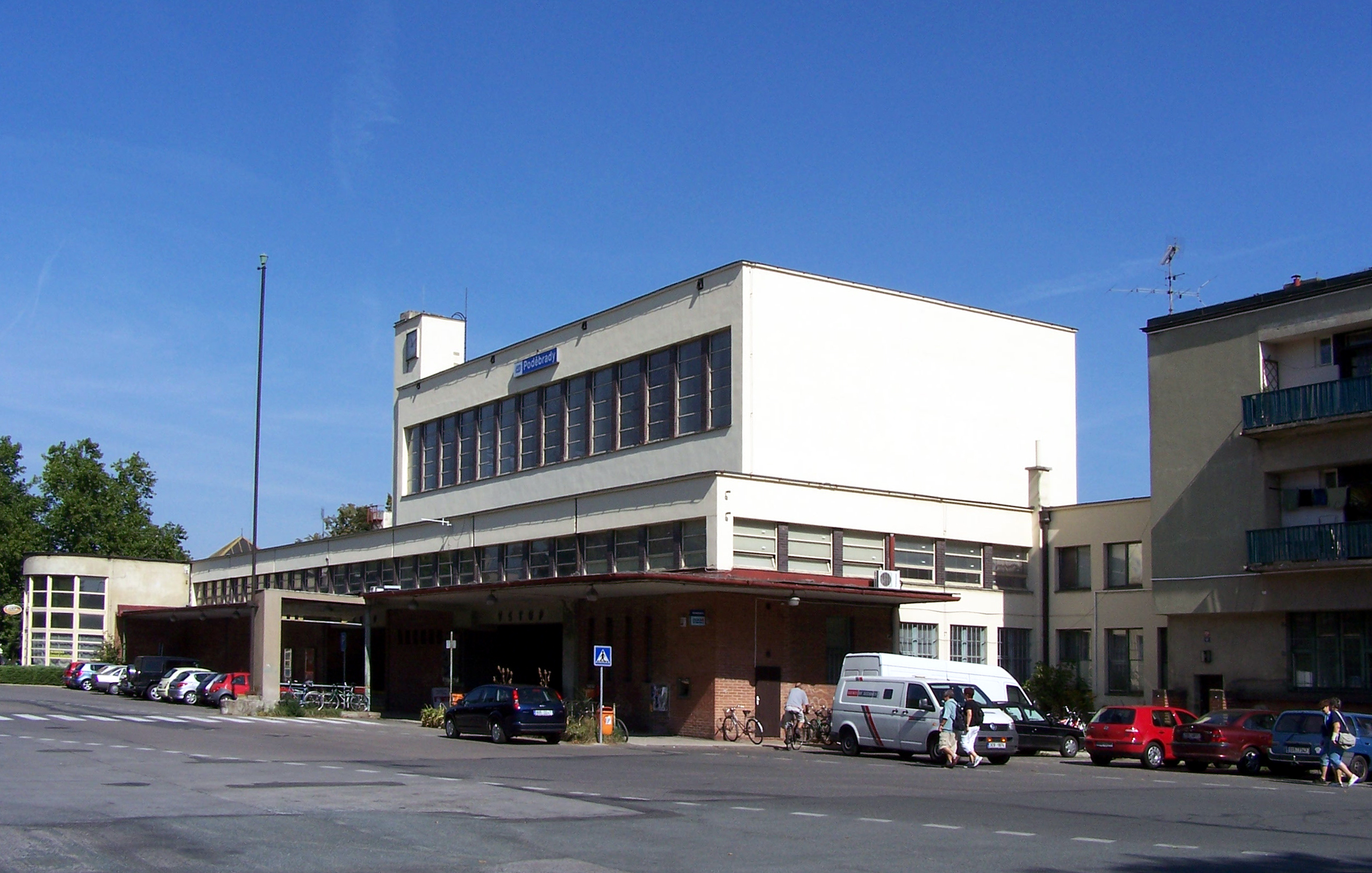 Exterior of the railway station in Poděbrady.